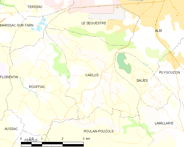 Map of French municipality Carlus